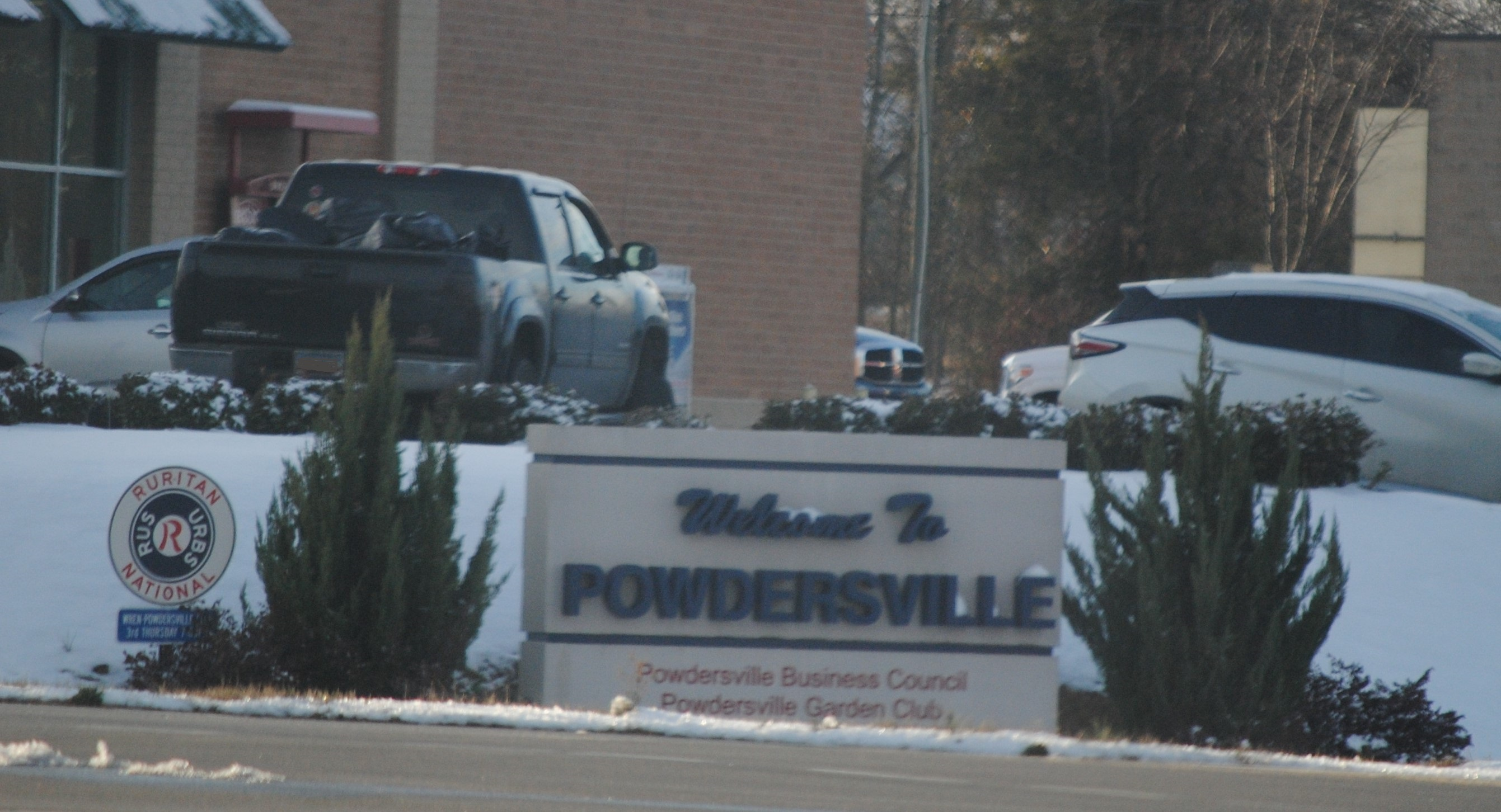 Welcome to Powdersville sign in Powdersville, SC